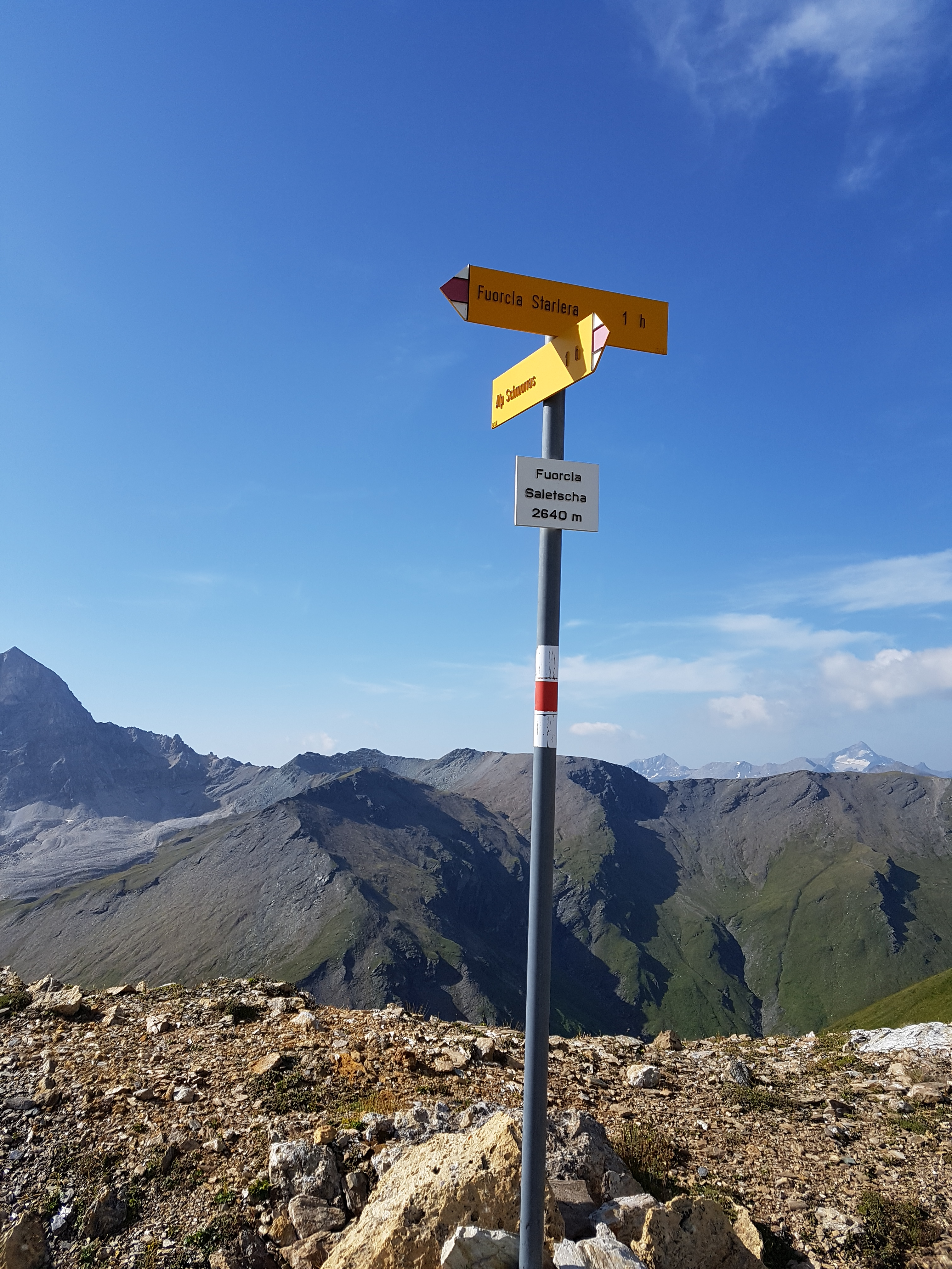 Fingerpost near Fuorcla da Saletscha (Surses/Ferrera, Grison, Switzerland